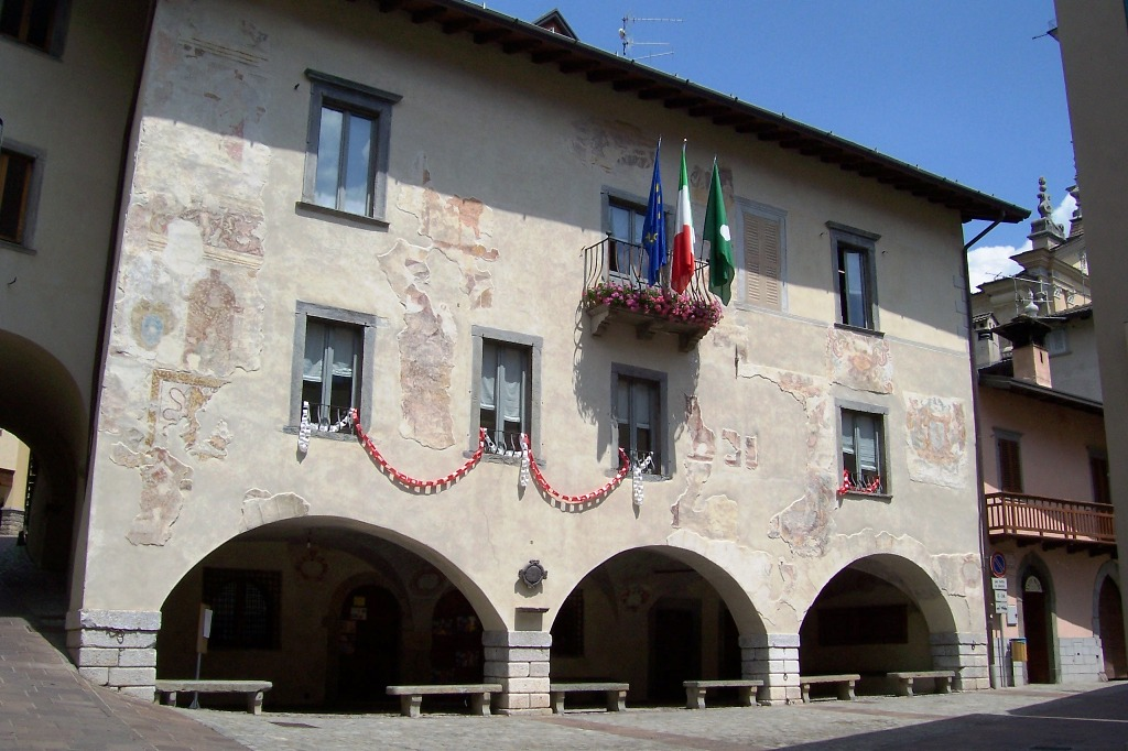 Palazzo pretorio. Comunità Montana della Valle di Scalve. Vilminore